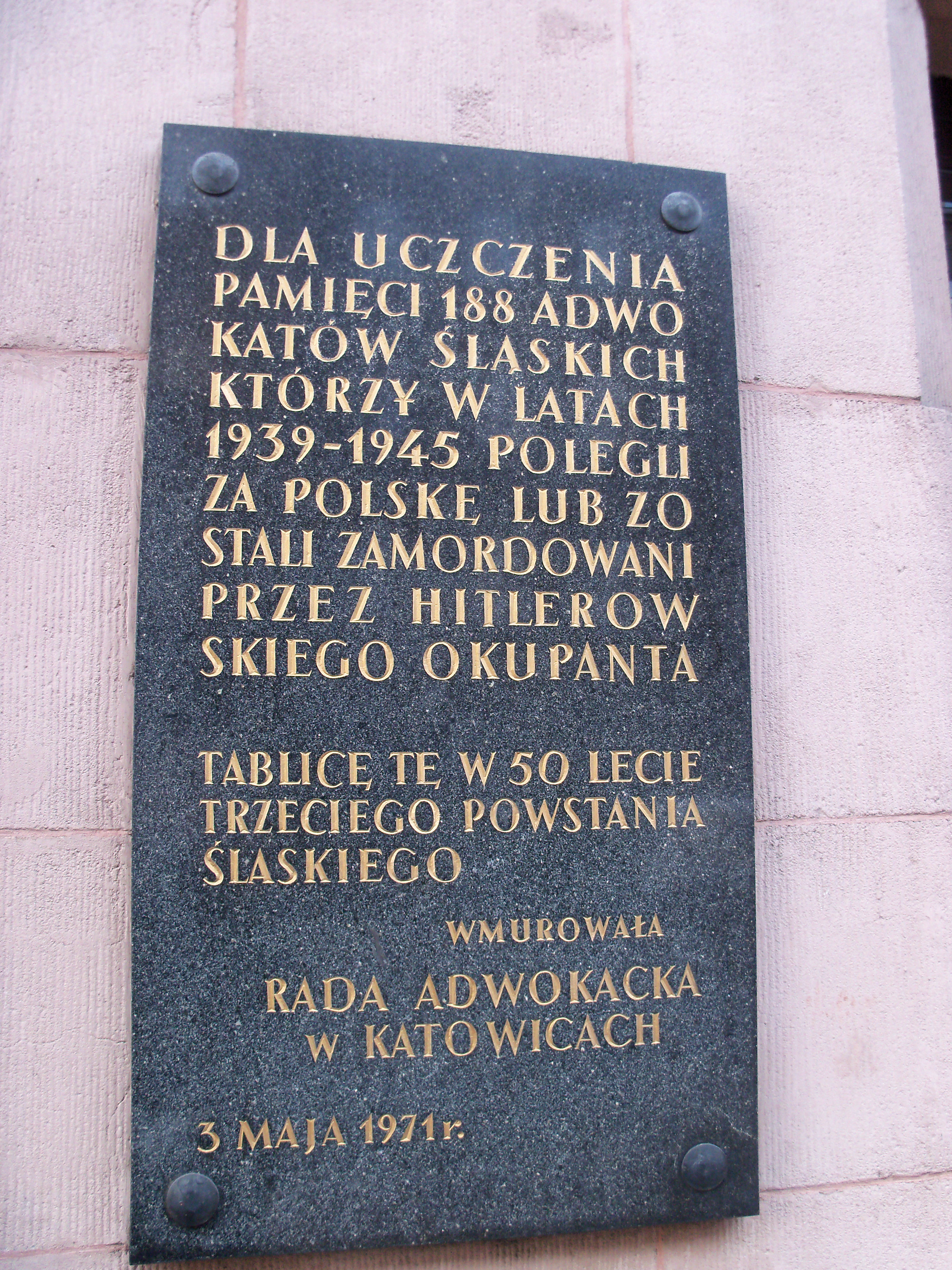 plaque in Katowice (Gliwicka Street 17)